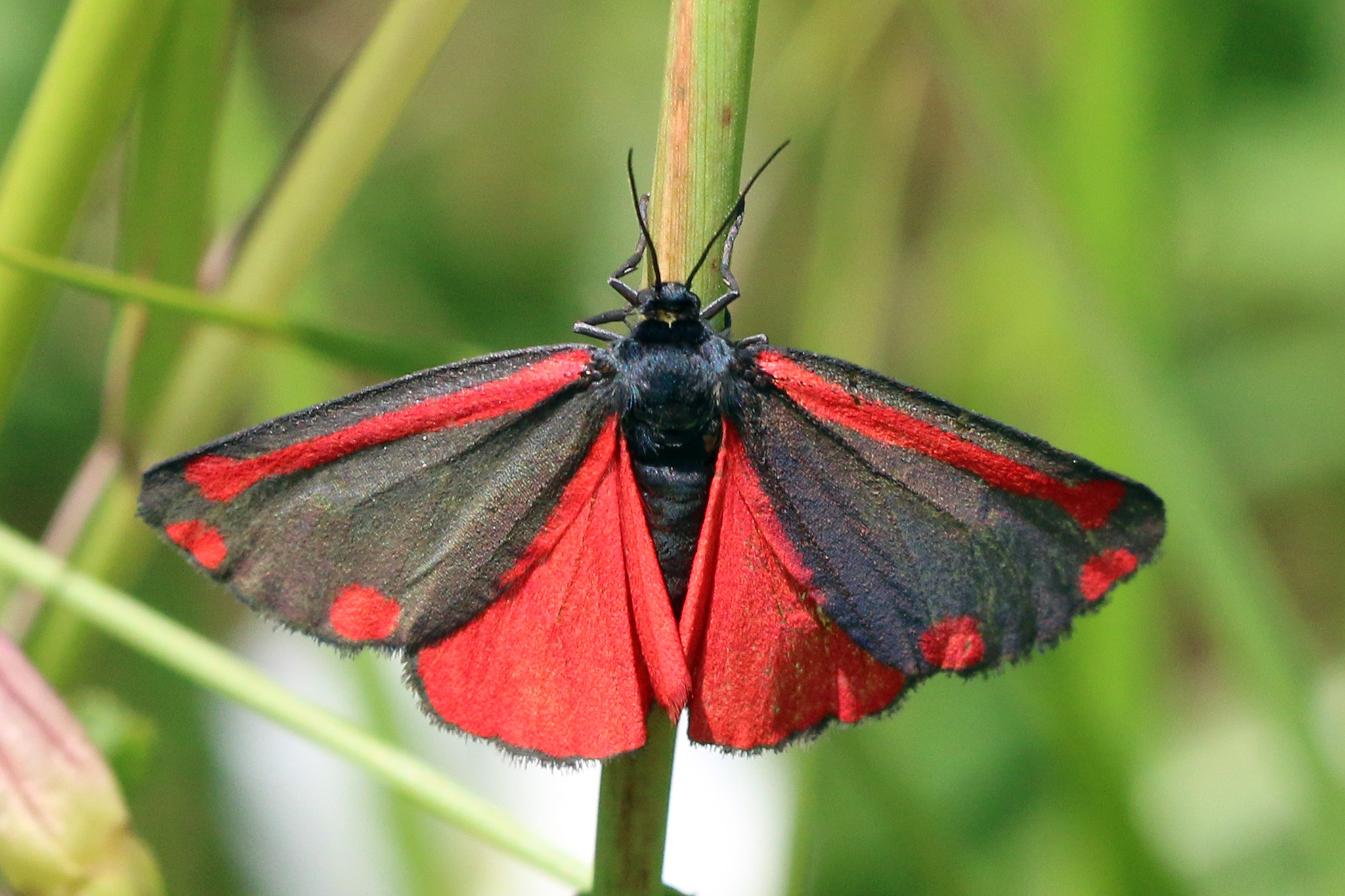 Cinnabar moth (Tyria jacobaeae), Piddington Wood, Oxfordhsire